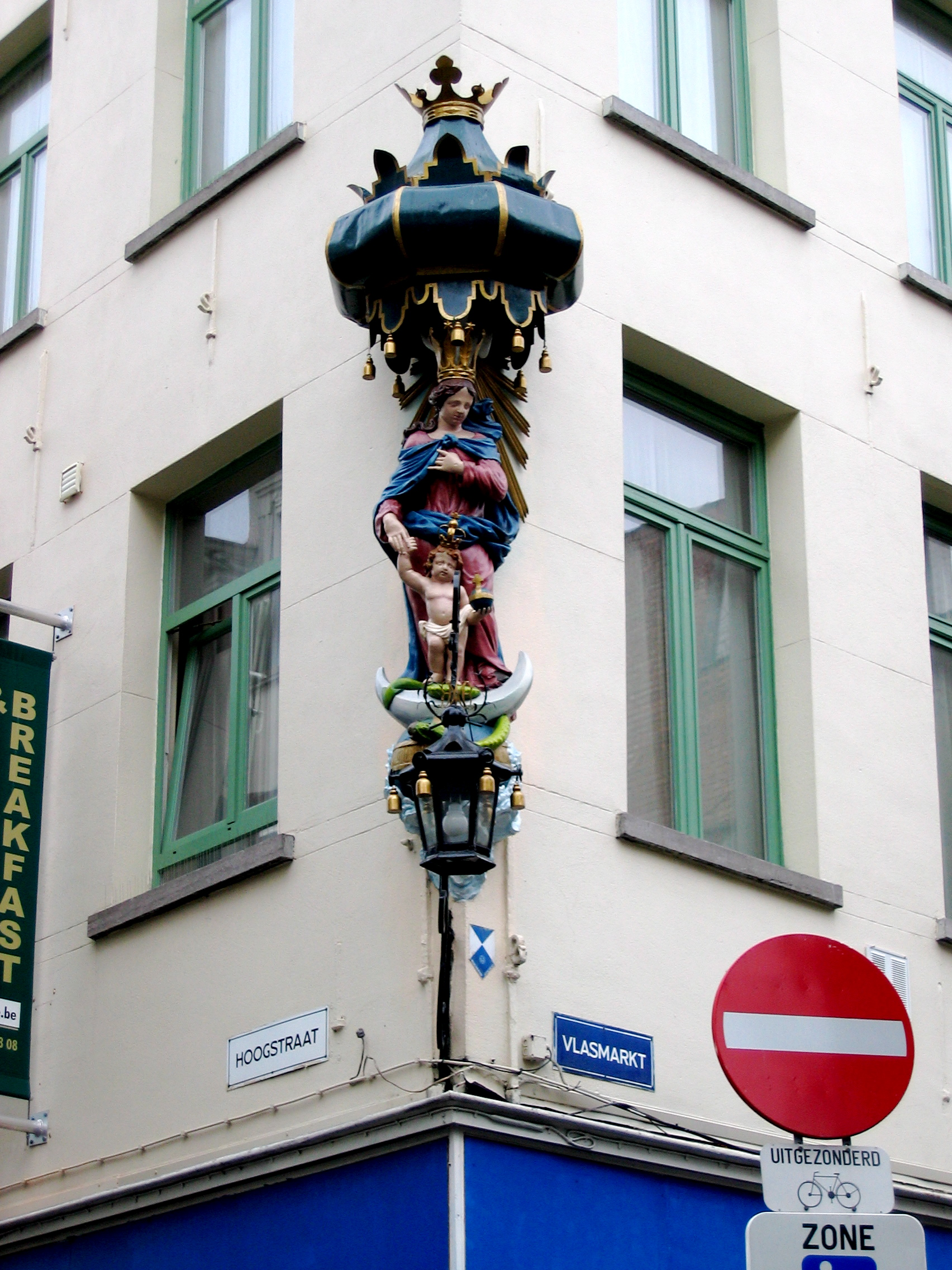 The corner of Hoogstraat and Vlasmarkt in Antwerp, featuring one of the many Marian devotionary statues.